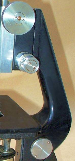 Microscope.